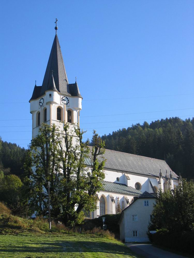 Pfarrkirche St. Leonhard im Lavanttal